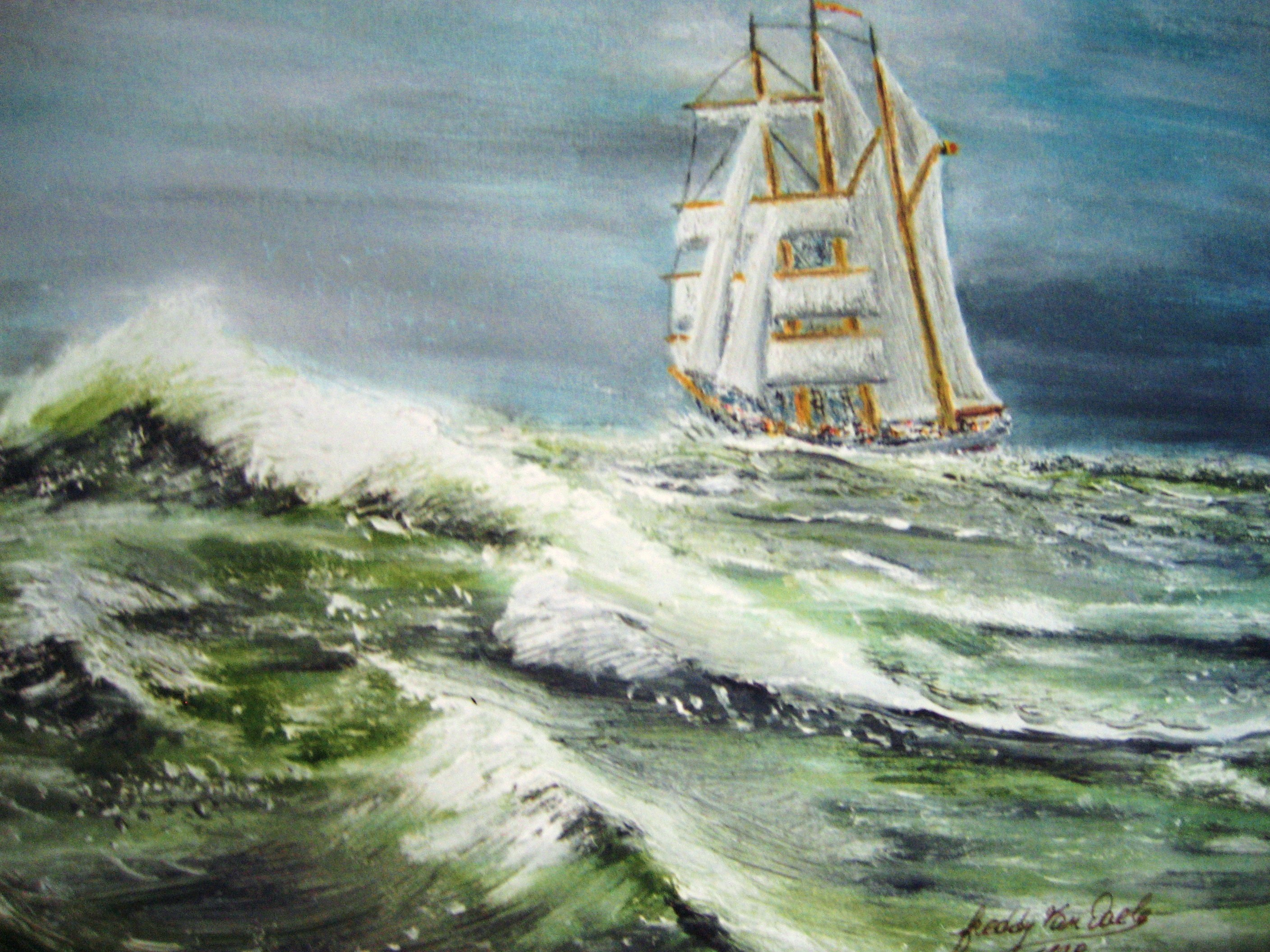 The belgian training ship MERCATOR, painted by Freddy Van Daele